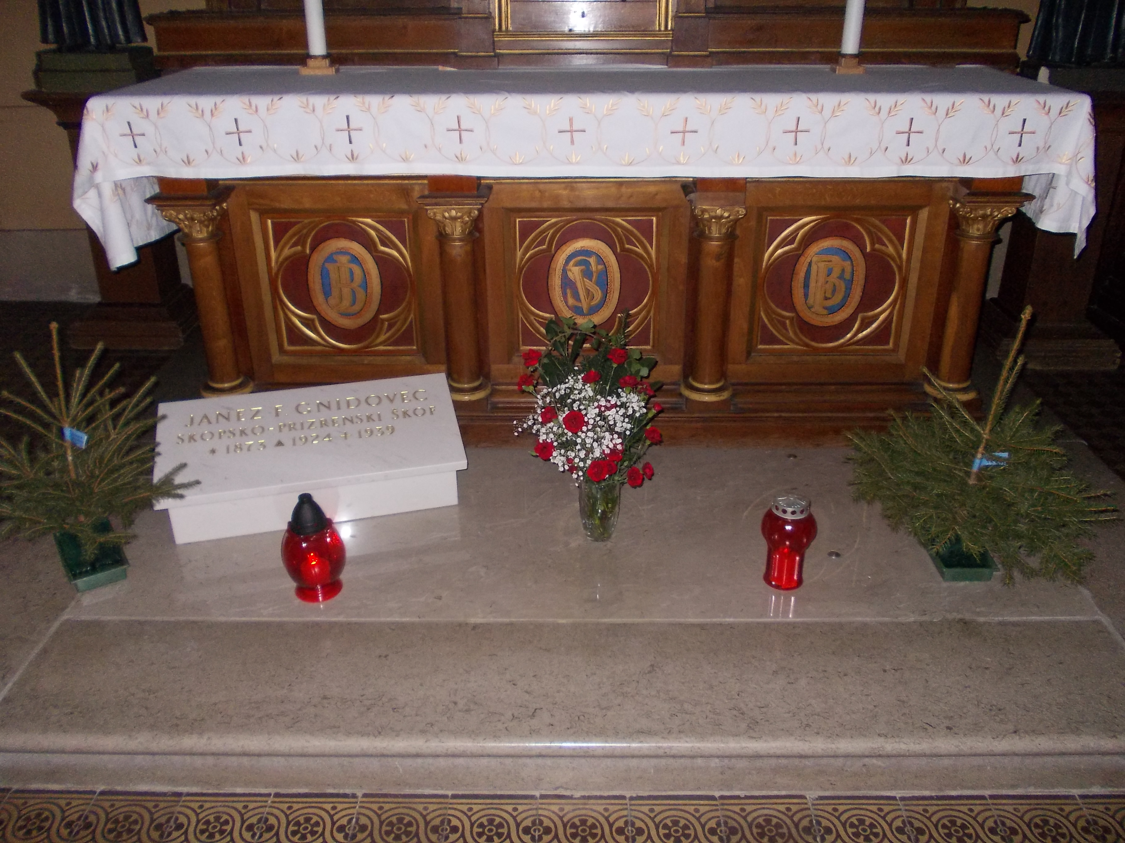 Tomb of bishop Janez Frančišek Gnidovec, Sacred Heart Church, Ljubljana